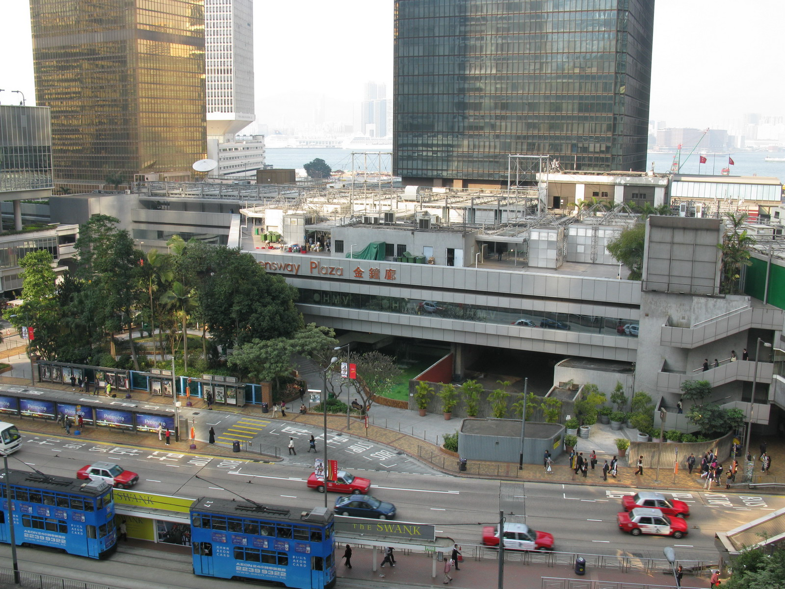 金鐘廊 Queensway Plaza